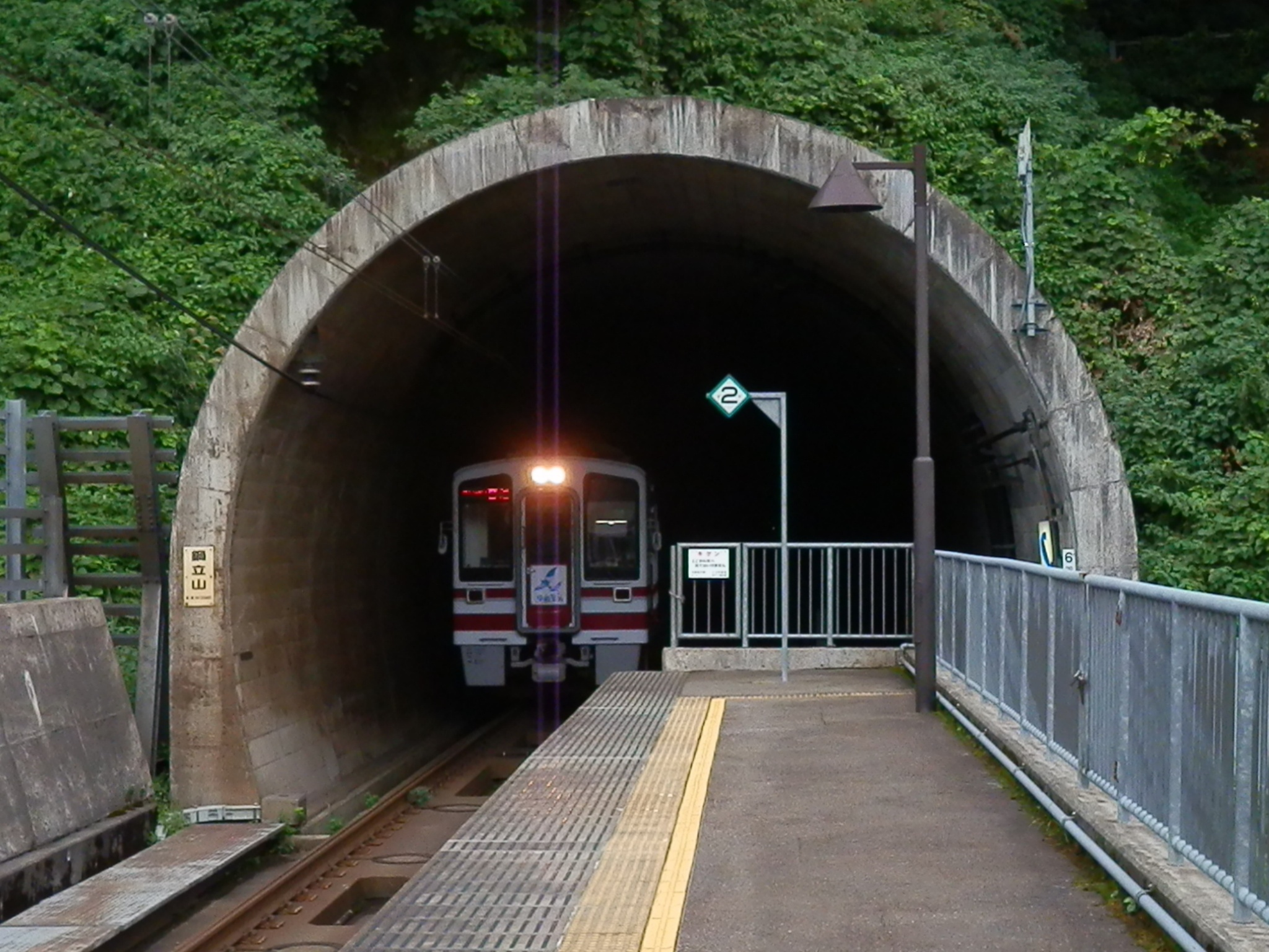 EMU of Hokuetsu Express Series HK-100 "Yumezora II" at Hokuhoku-Oshima(Nabetachiyama Tunnel)